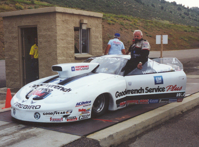 Warren Johnson, 2nd winningest driver in the history of NHRA drag racing. He is getting into the car to drive off of the scale.Warren Johnson